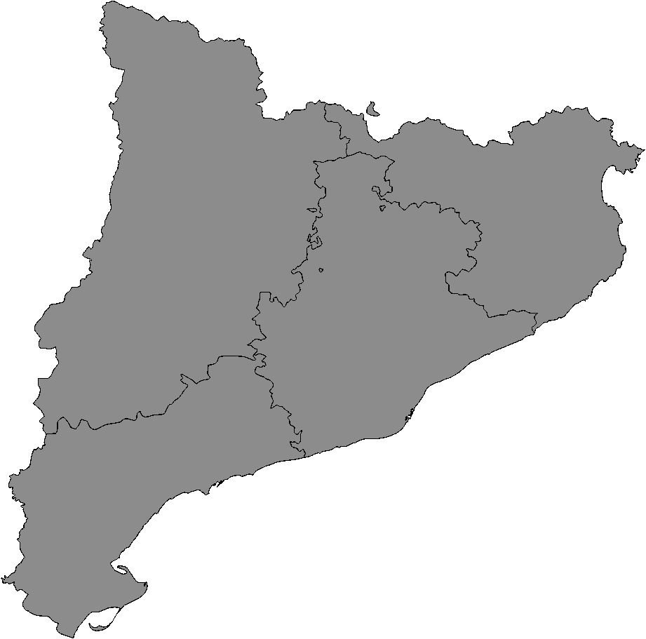 Blank map of Catalan regional elections provincial results.